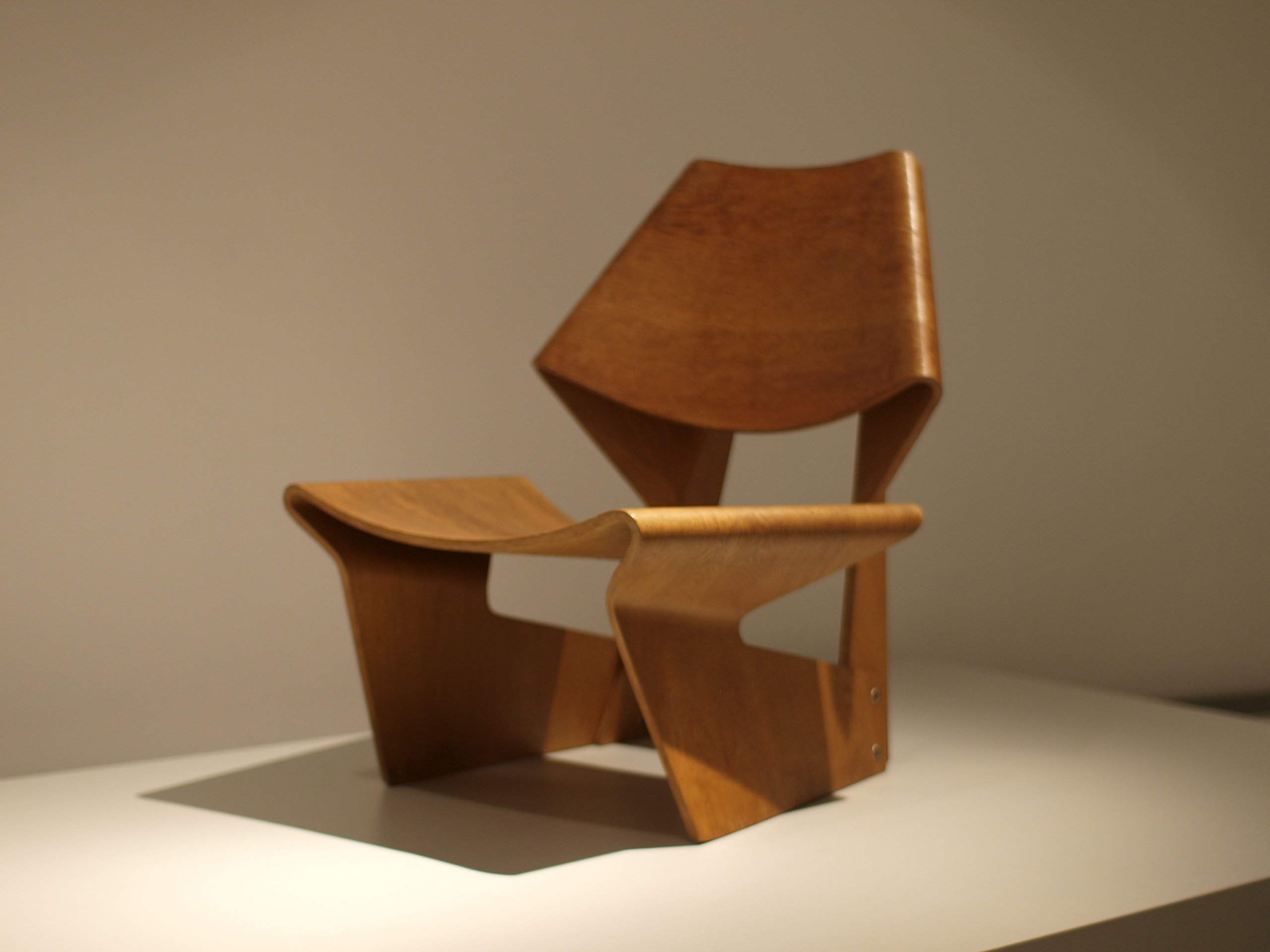 München :: Grete Jalk's GJ chair from 1993 photographed in Munic